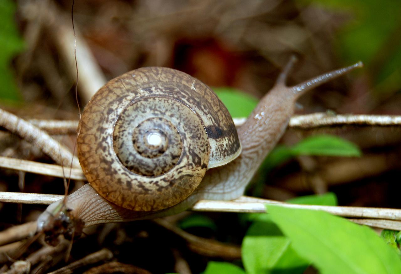 An unidentified land snail from Morayur, Kerala, India